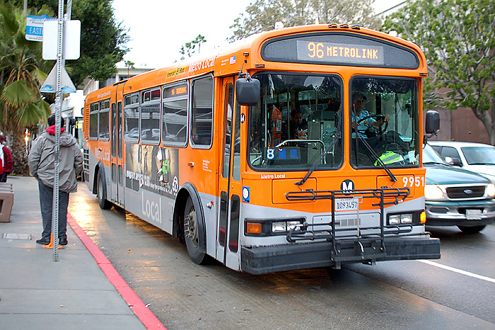 LACMTA Thomas TL-960 #9951.